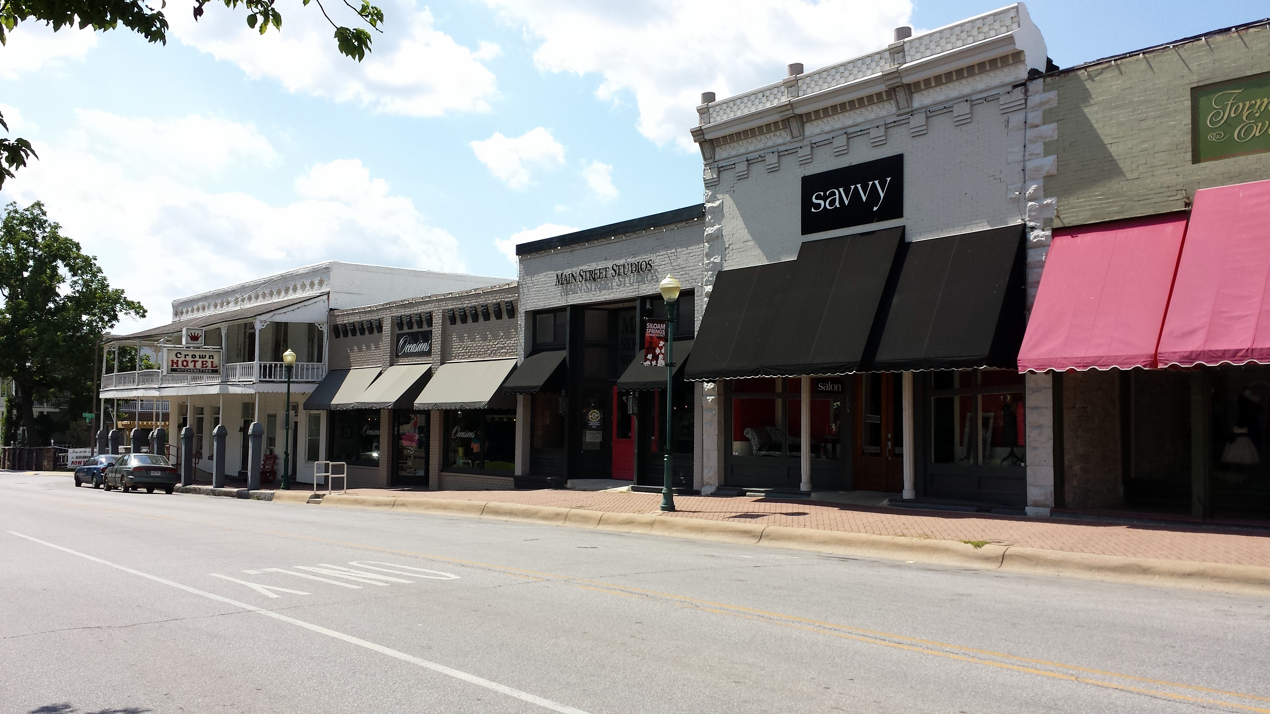 bounded by Sugar Creek on the W, Ashley St. to the N, Madison Ave. to the E, & Twin Springs St. to the S 1890-mid-1940s historic district containing 65 commercial and institutional structures